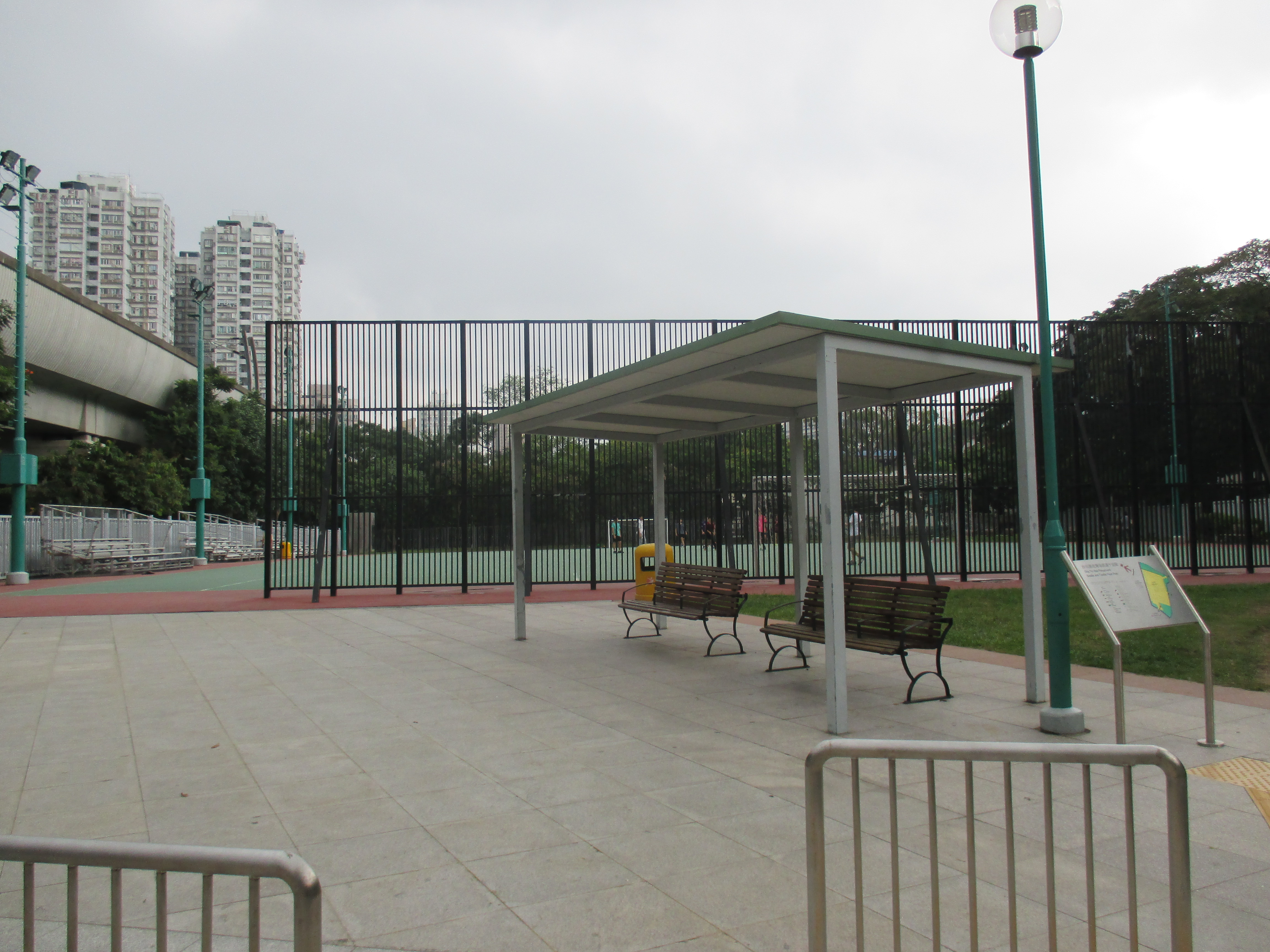 Sha Tin Wai Playground